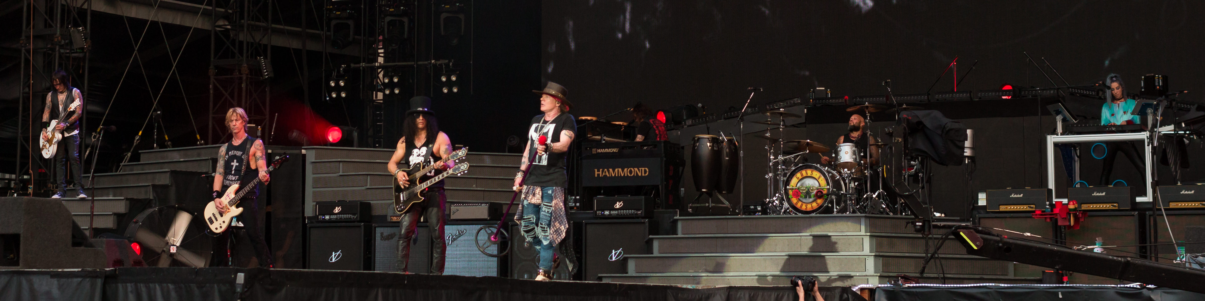 Guns N' Roses performing Civil War live in London, 17 June 2017